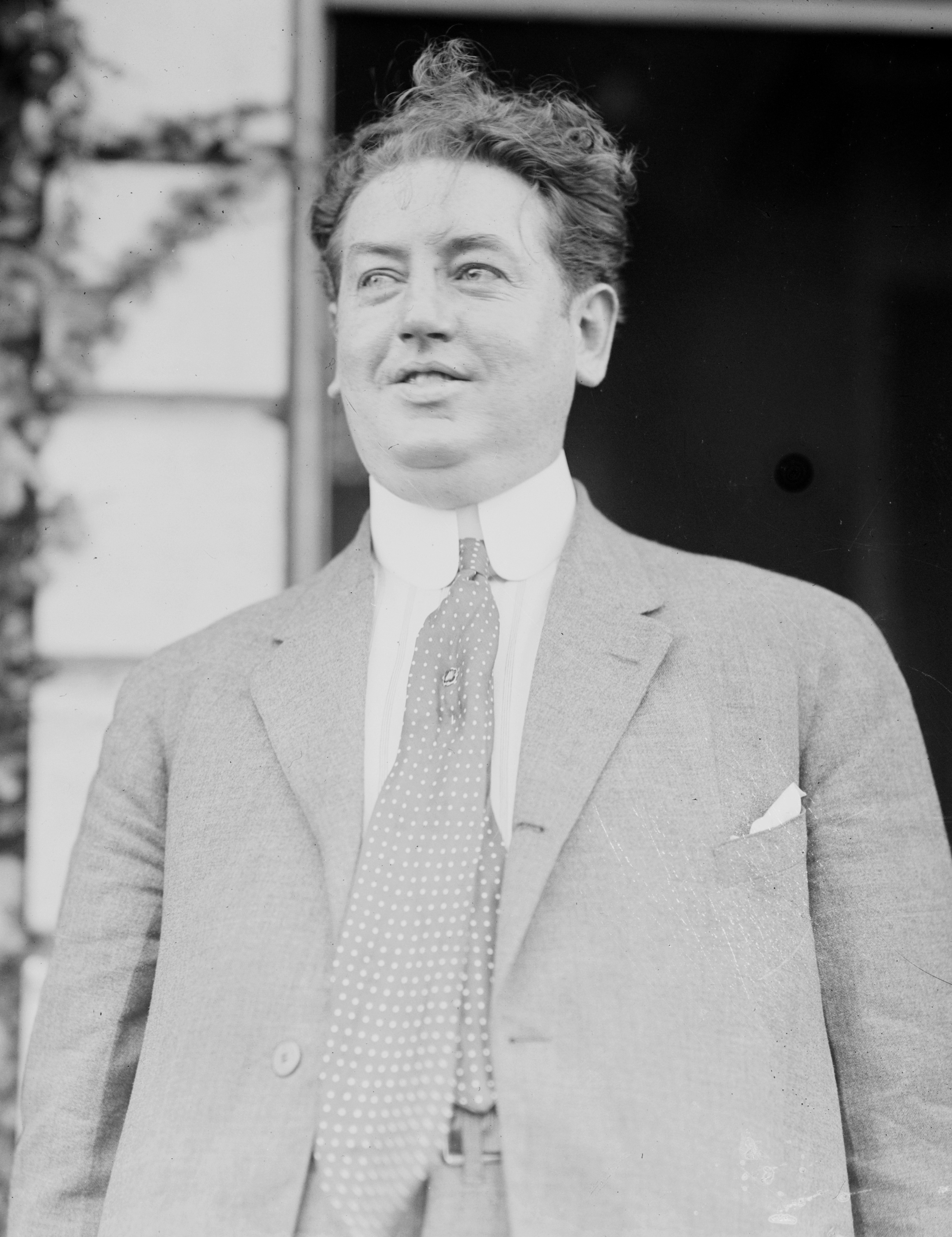 James M. Clancy, the Warden of Sing Sing circa 1913 cropped